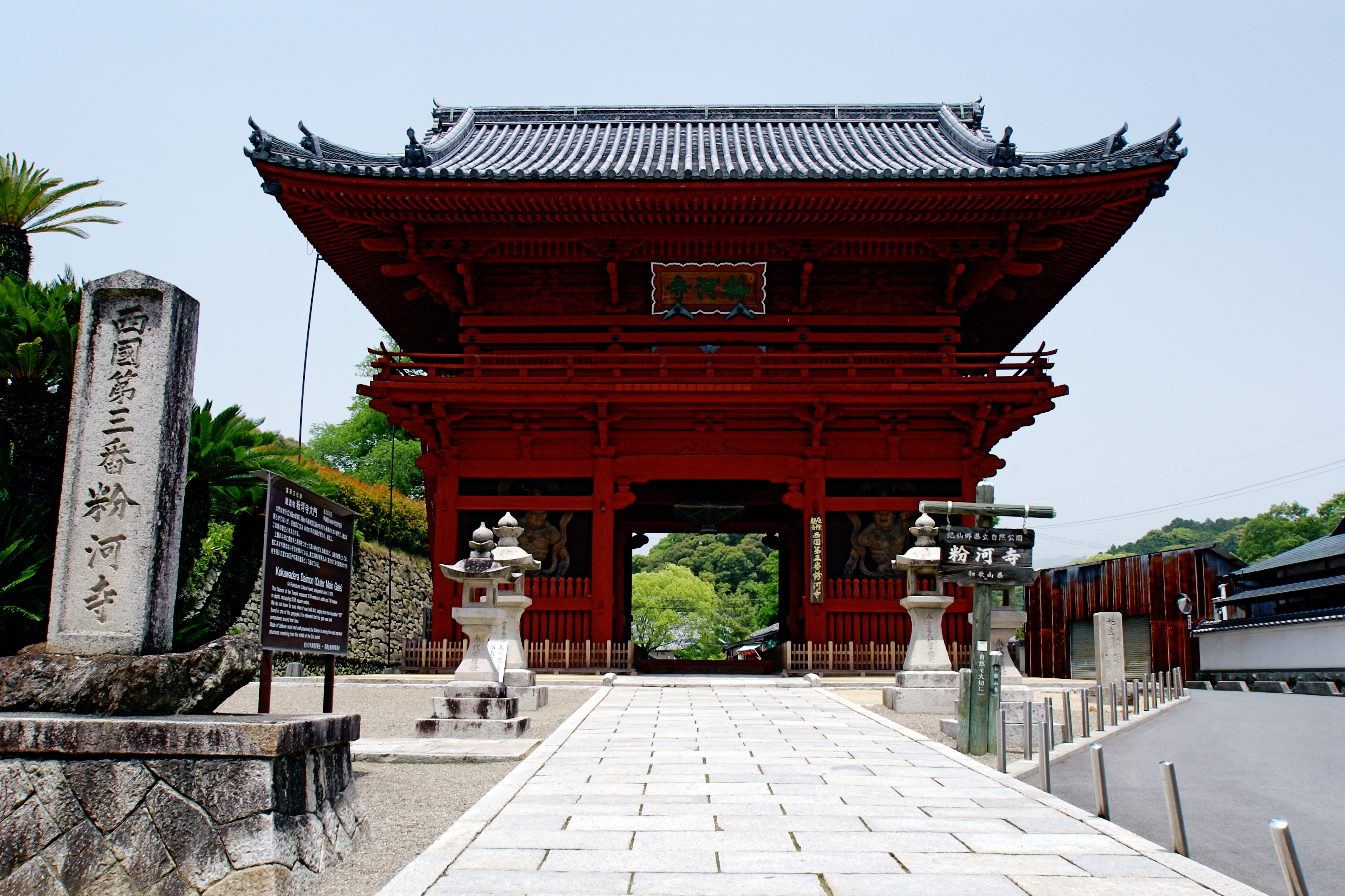 Kokawa-dera in Kinokawa, Wakayama prefecture, Japan